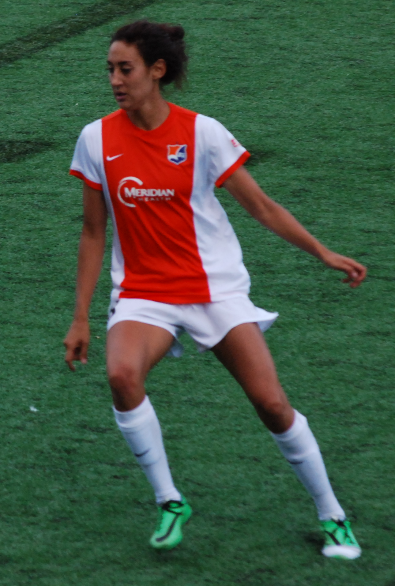 Seattle Reign FC vs Sky Blue FC Memorial Stadium, Seattle Center Seattle, WA June 28, 2014